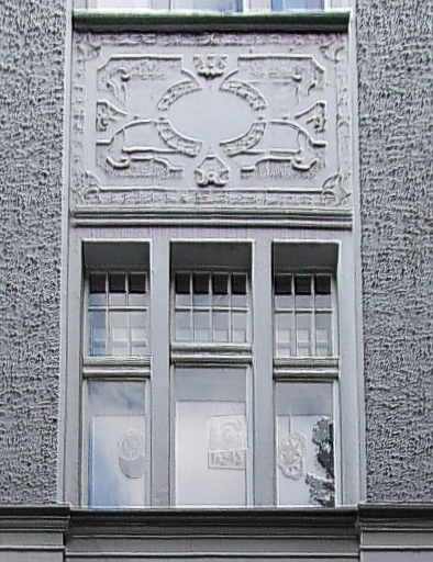 Entry to the Wilhelminian style house at Rothenburg street 3 at Berin-Steglitz